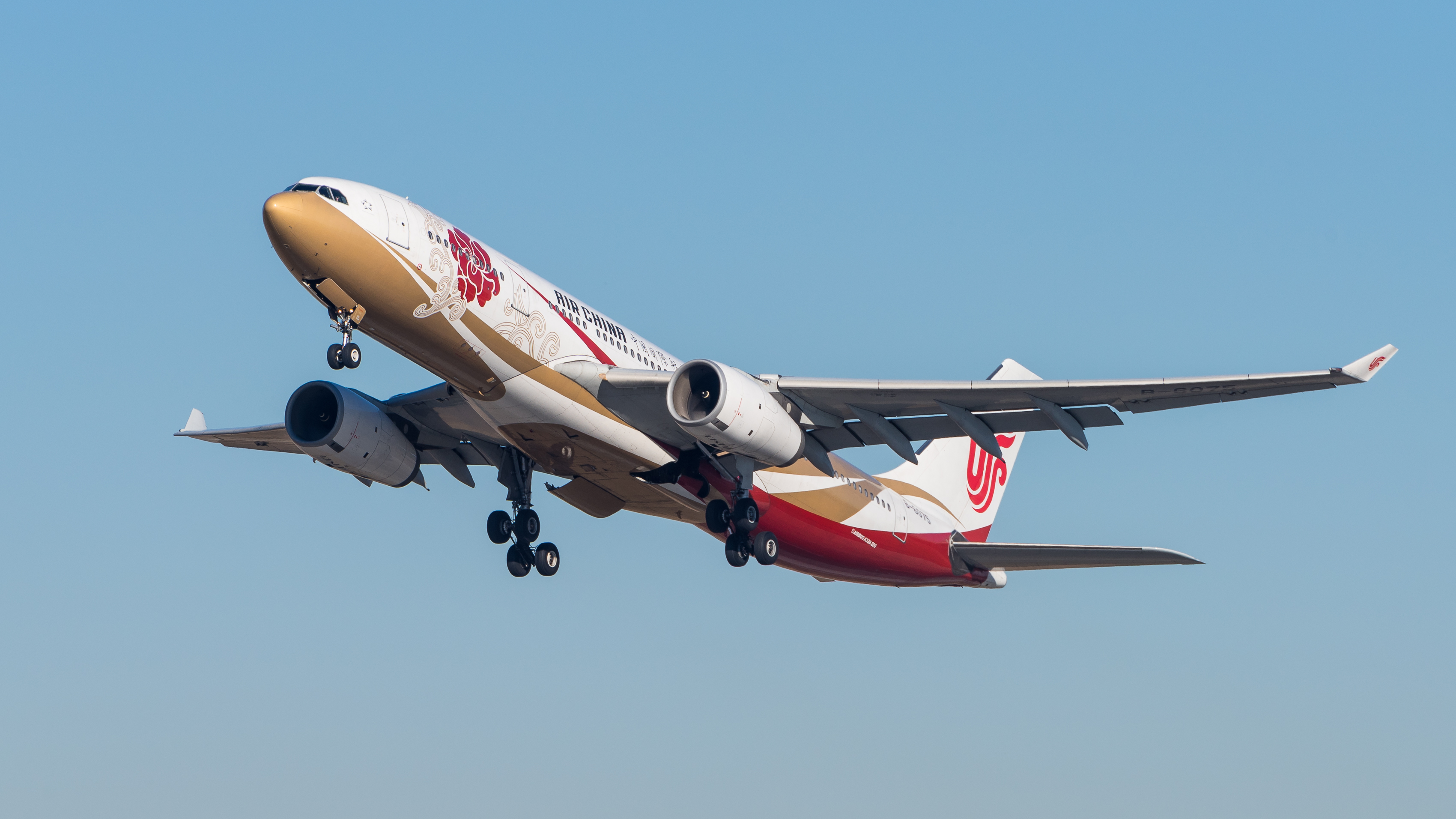 Air China Airbus A330-243 (reg. B-6075, msn 785) at Munich Airport (IATA: MUC; ICAO: EDDM) departing 26L.